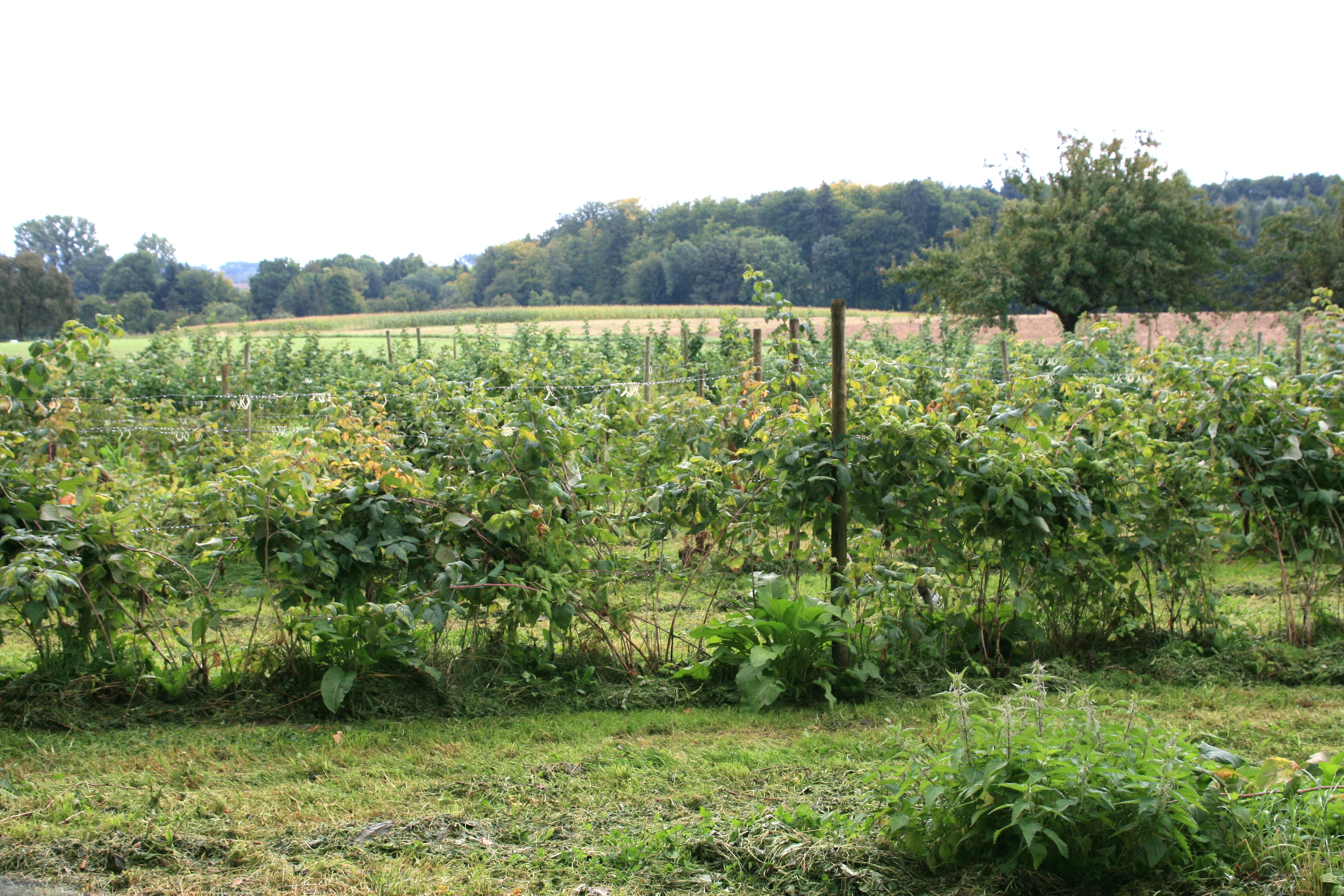 Plastic fasteners used to fix tendrils of cultivated raspberry plants to wires